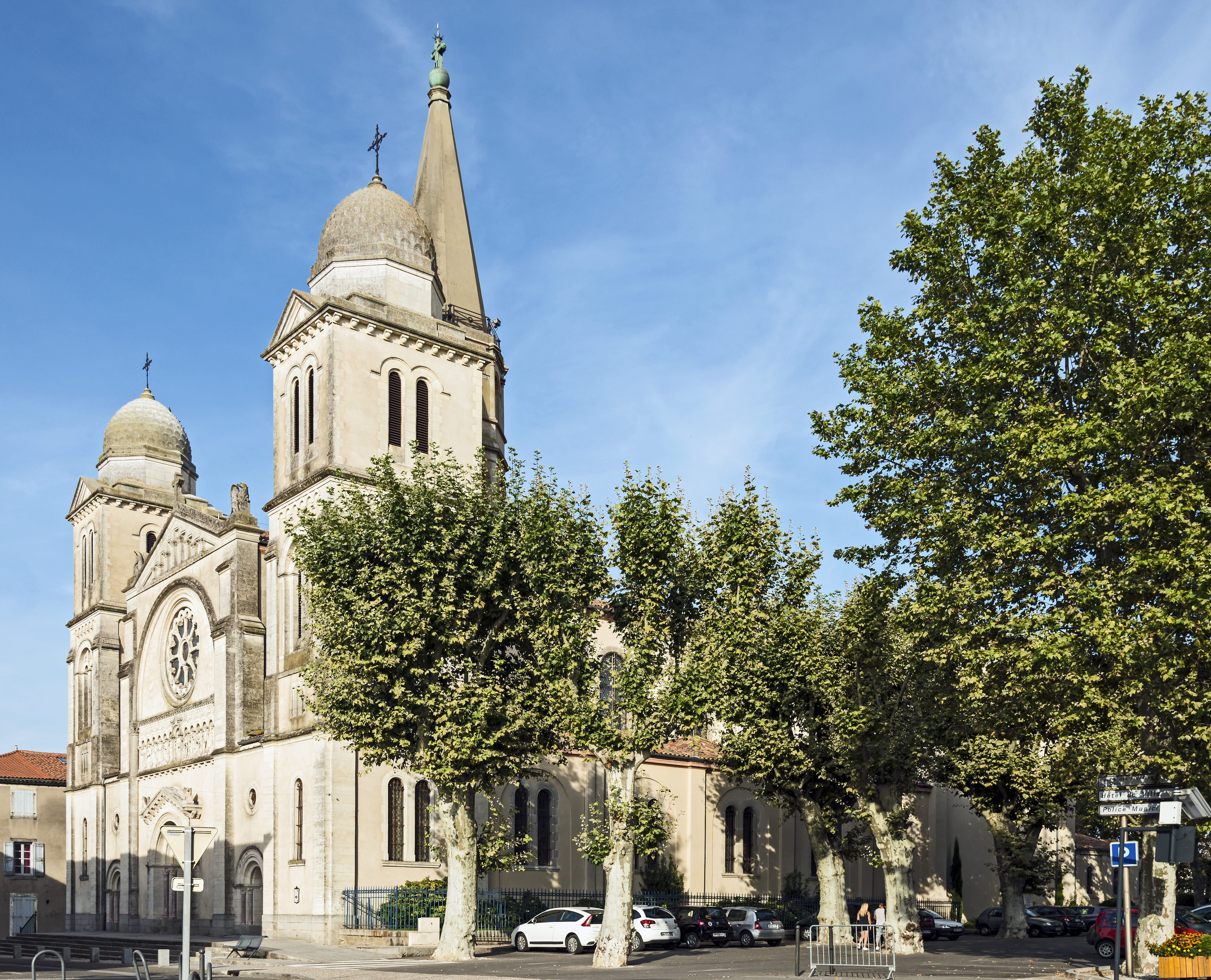 The Church "Notre-Dame" in Revel, Haute-Garonne, France - Southern exposure